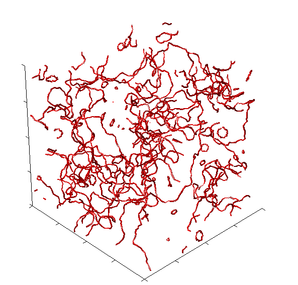 A representation of a cubic tangle of quantized vortex lines.